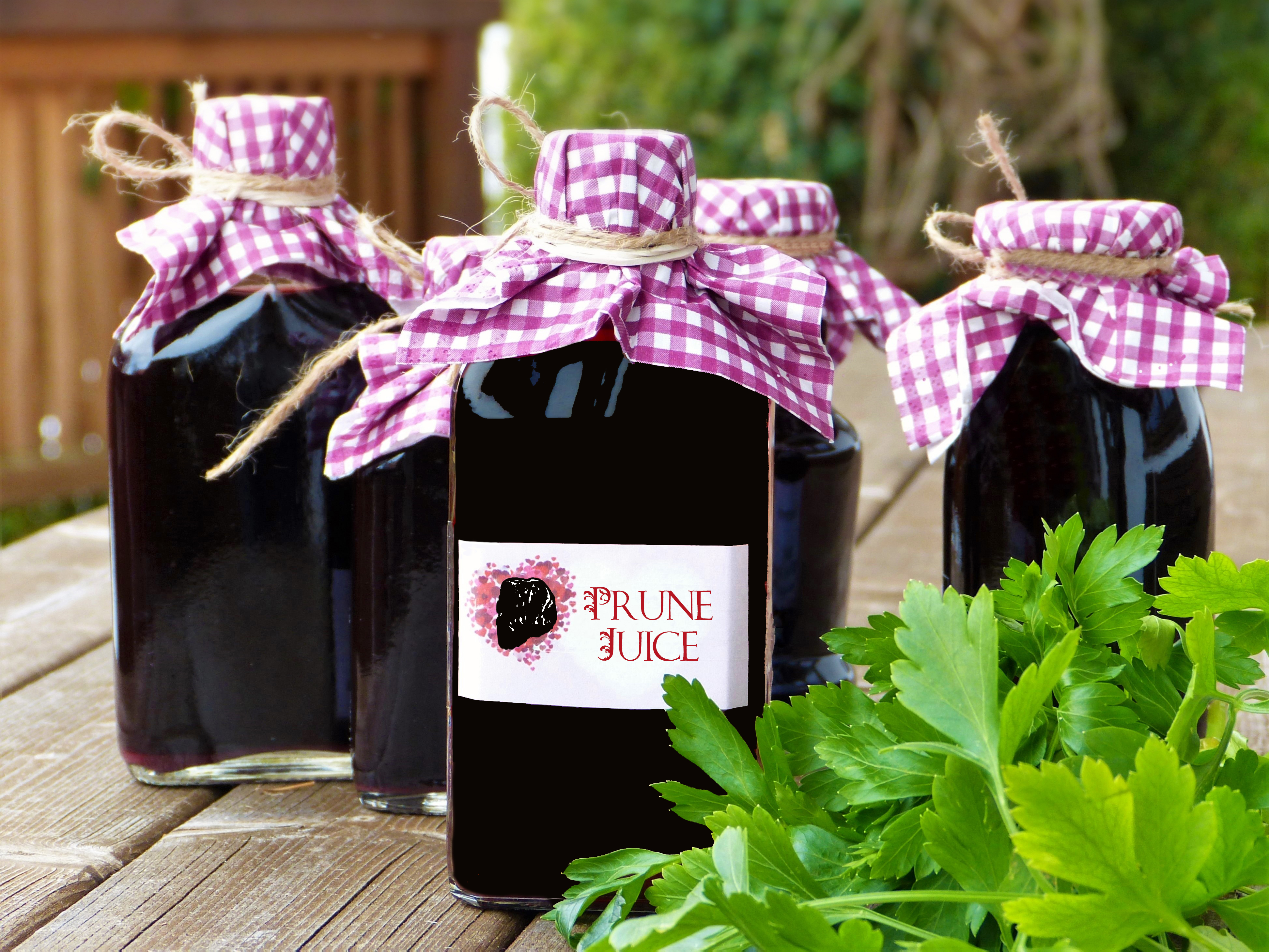 Assorted juice bottles with gingham cloth tops